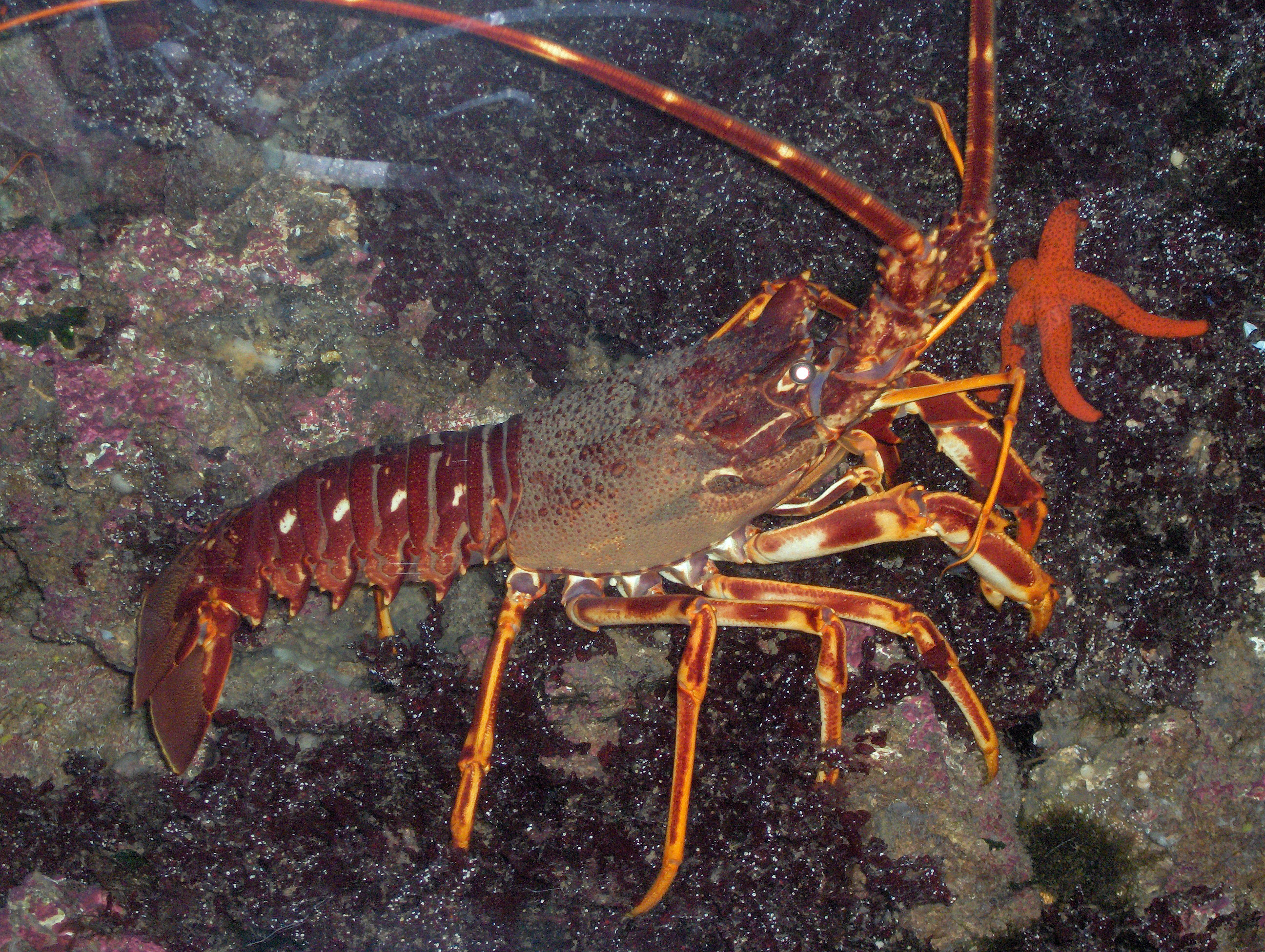 Spiny lobster (Palinurus elephas); Musée Océanographique de Monaco